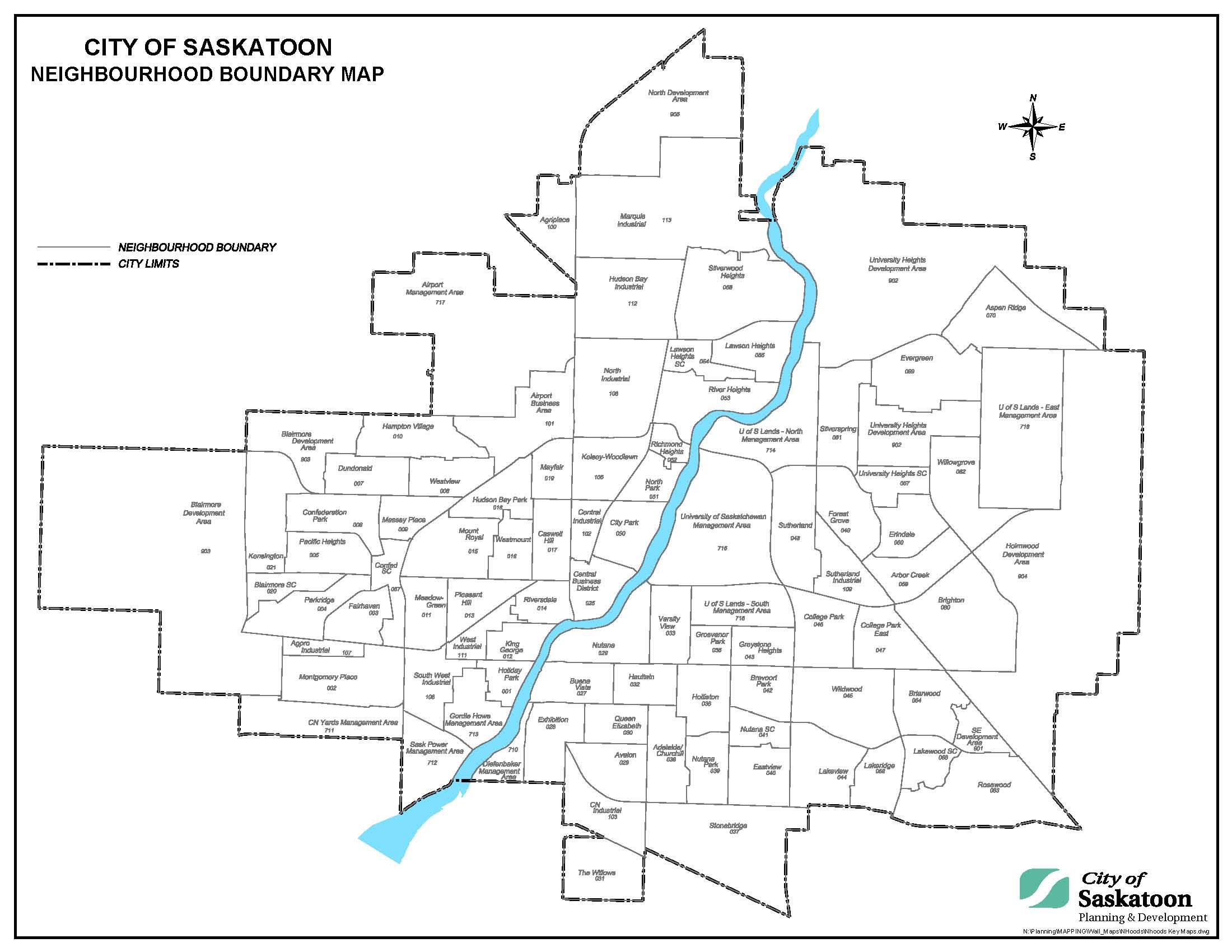 A map showing the boundaries of all neighbourhoods in Saskatoon, Saskatchewan, Canada as of 2014